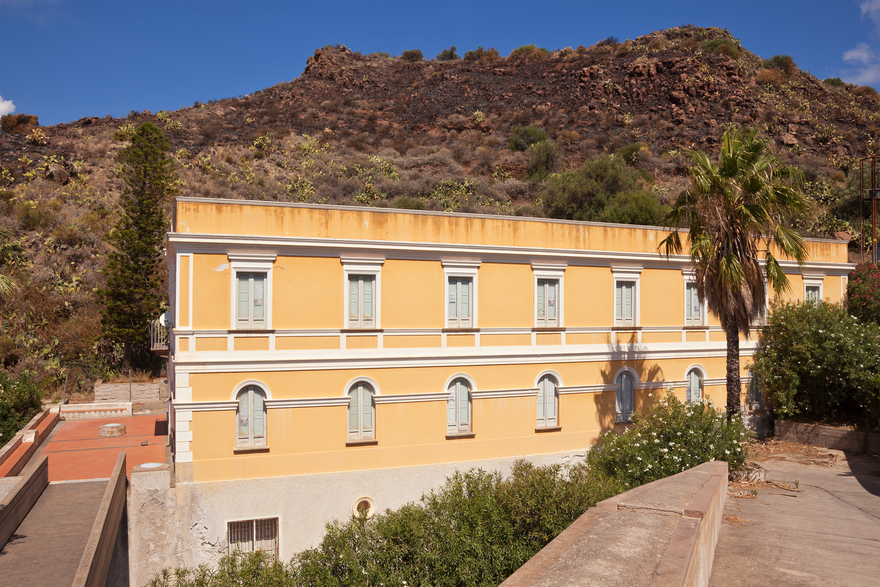 Lipari (Aeolian Islands), Terme di San Calogero